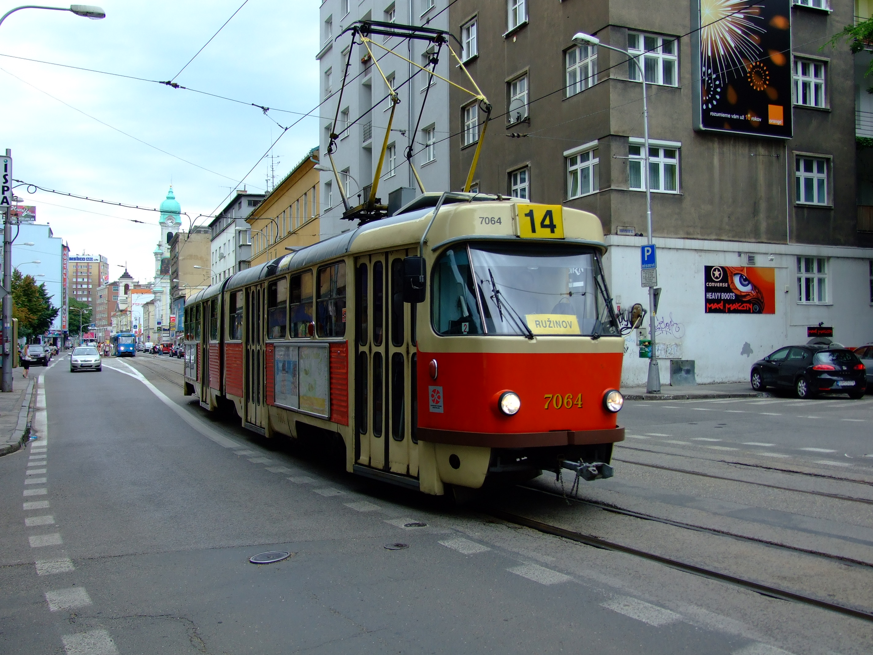 Public transport tram Tatra K2 in Bratislava, SK